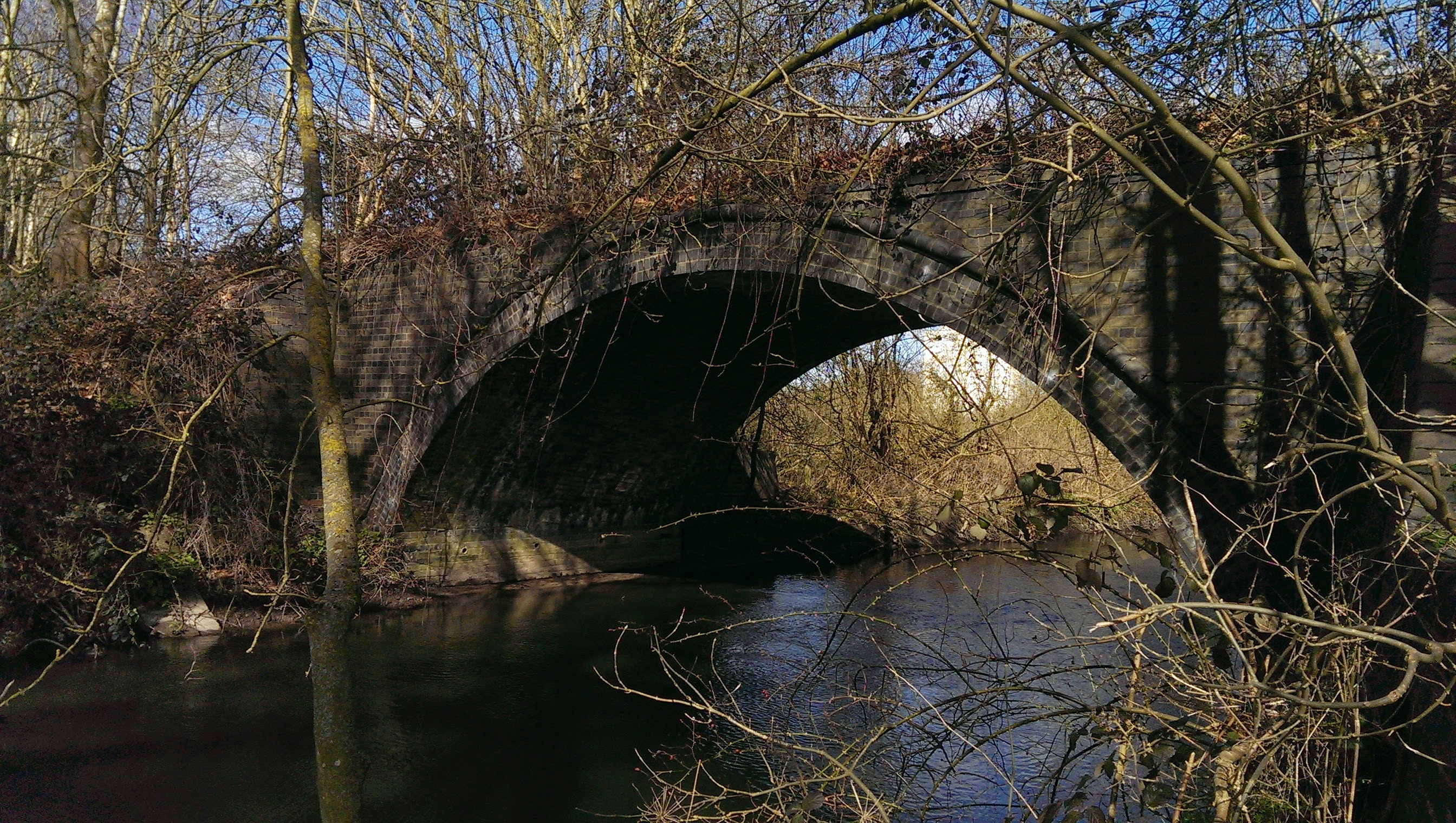 Bridge carrying the trackbed of the Coley Branch Line over the Holy Brook near Reading, Berkshire, UK